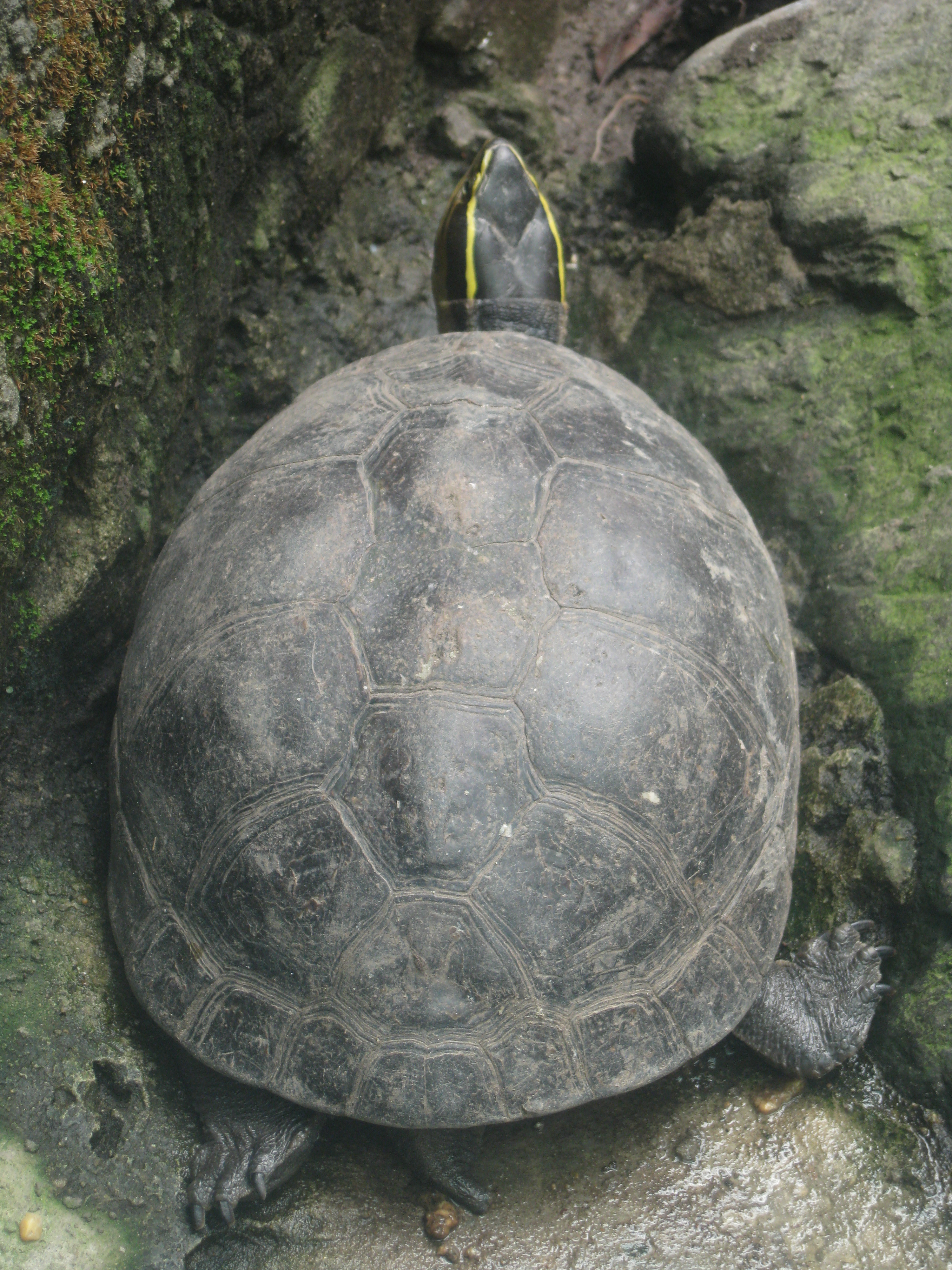 Cuora amboinensis at Saigon Zoo and Botanical Gardens.